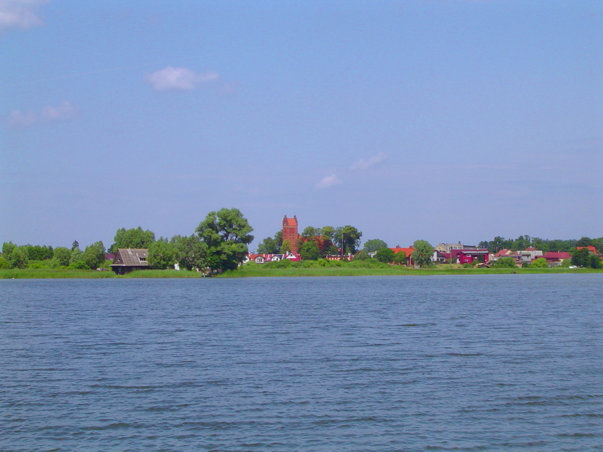 Lake Kałębie, in Poland